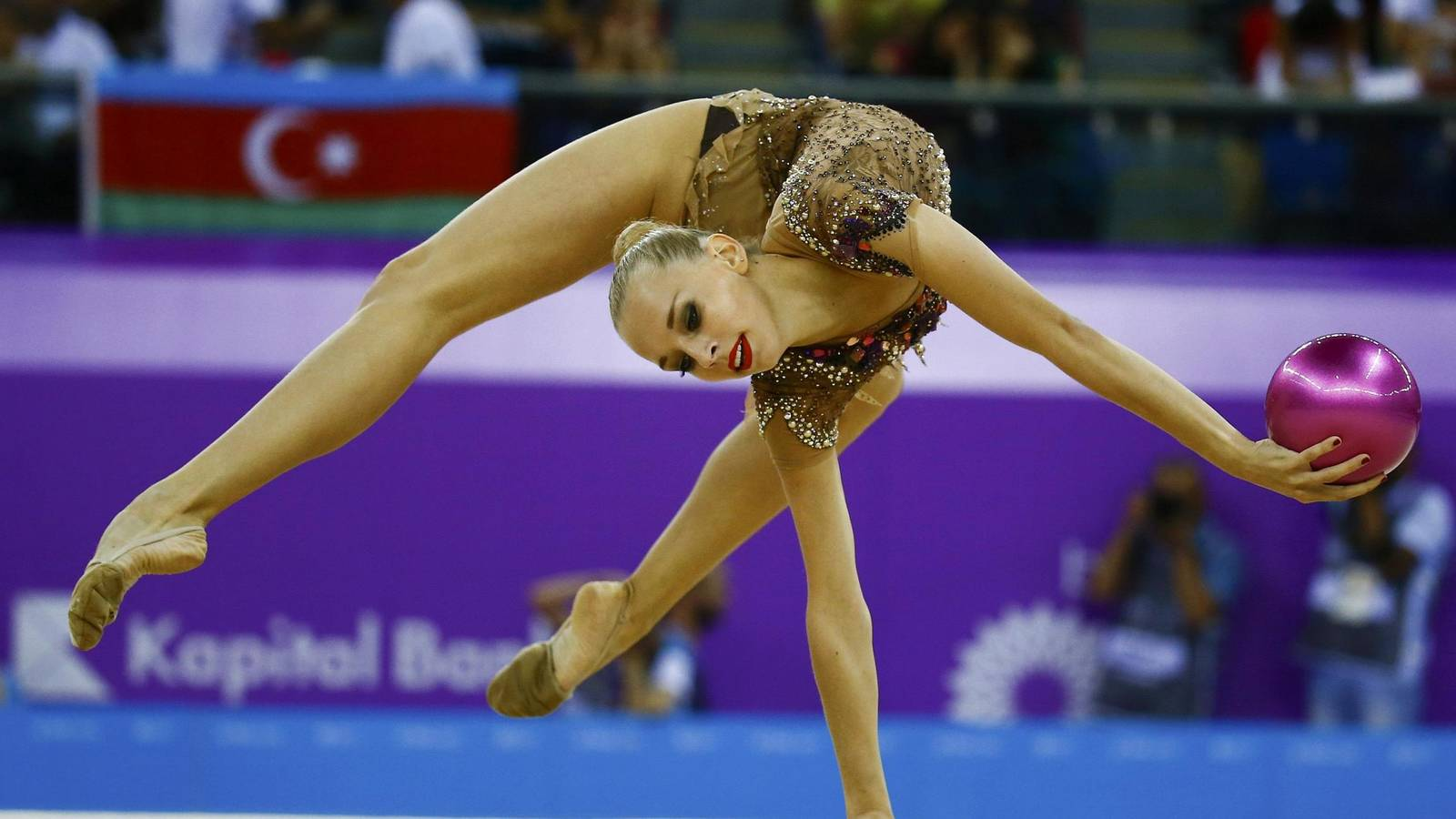 Russian rhythmic gymnast Yana Kudryavtseva competing at the Baku 2015 European Games